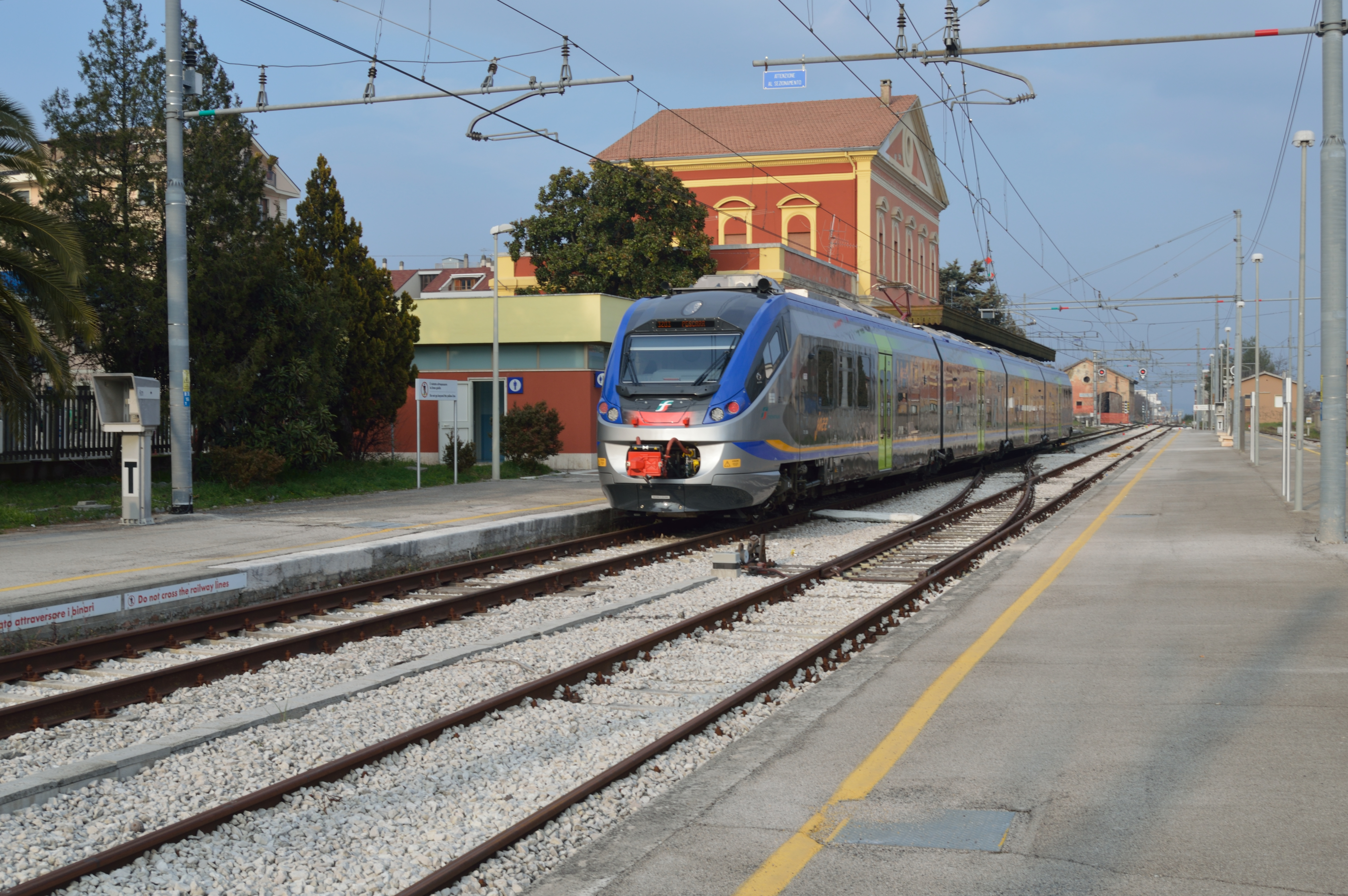 Taken during a 10-minute turnaround at the branch line terminus of Teramo. EMU ETR.324.005 has worked in train R 3202, 14:49 Pescara Centrale to Teramo.